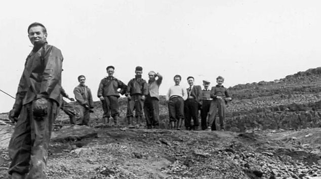 Workers in Vestmanna in the 1950's, during the construction of the hydro power station and dam.